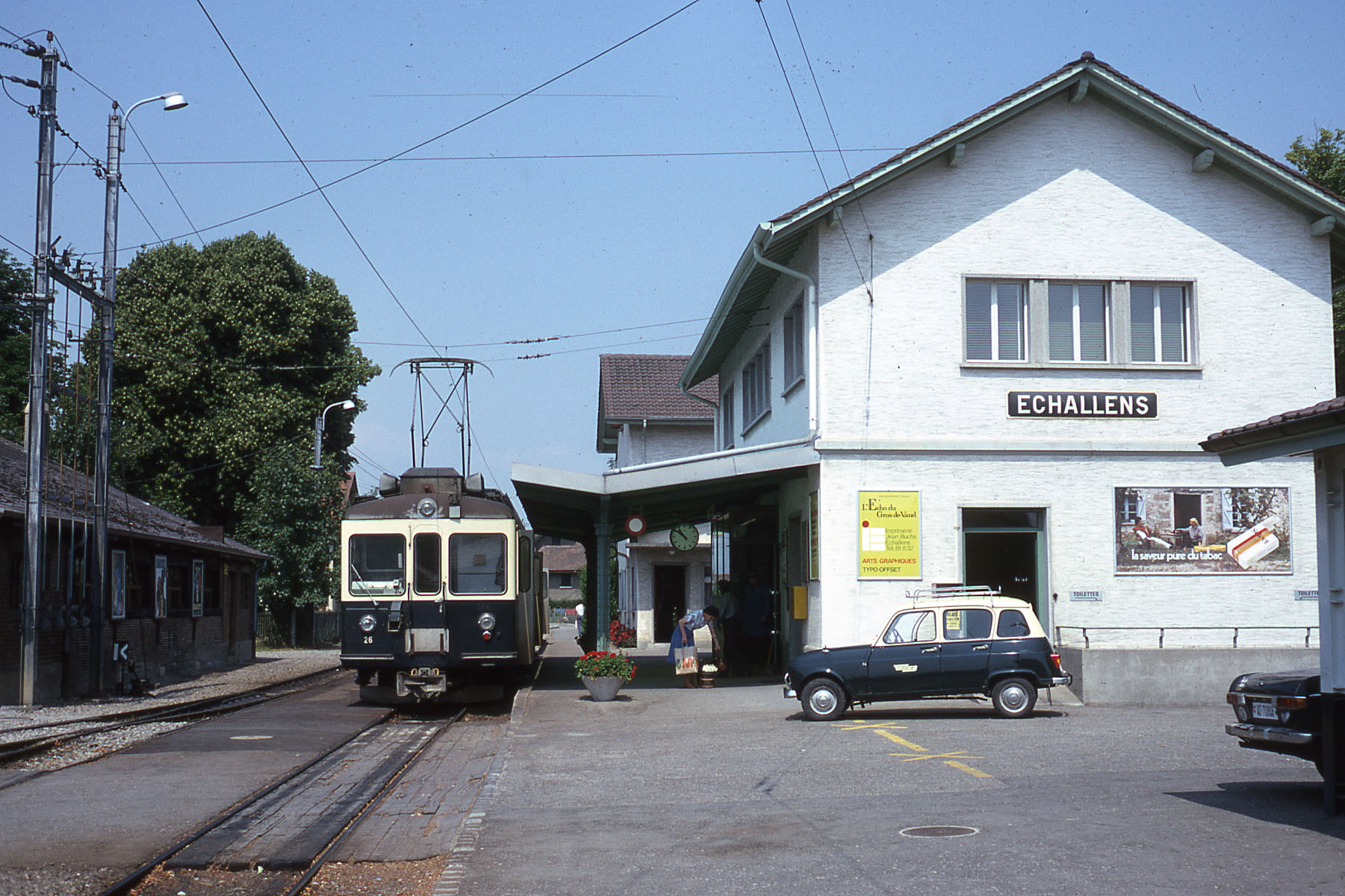 Be 4/4 26 waiting at the platform and service automobile 14 parked in front of the old railway station of Échallens in 1976.